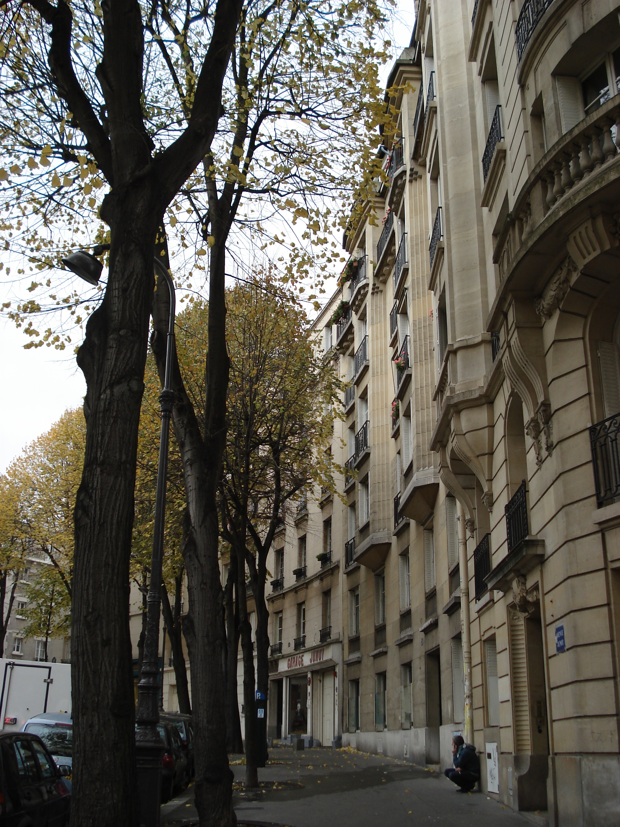 Street View of Paris; Avenue Junot, XVIIIe arrondissement, Paris, France.